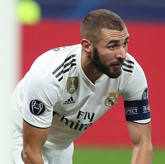 Karim Benzema